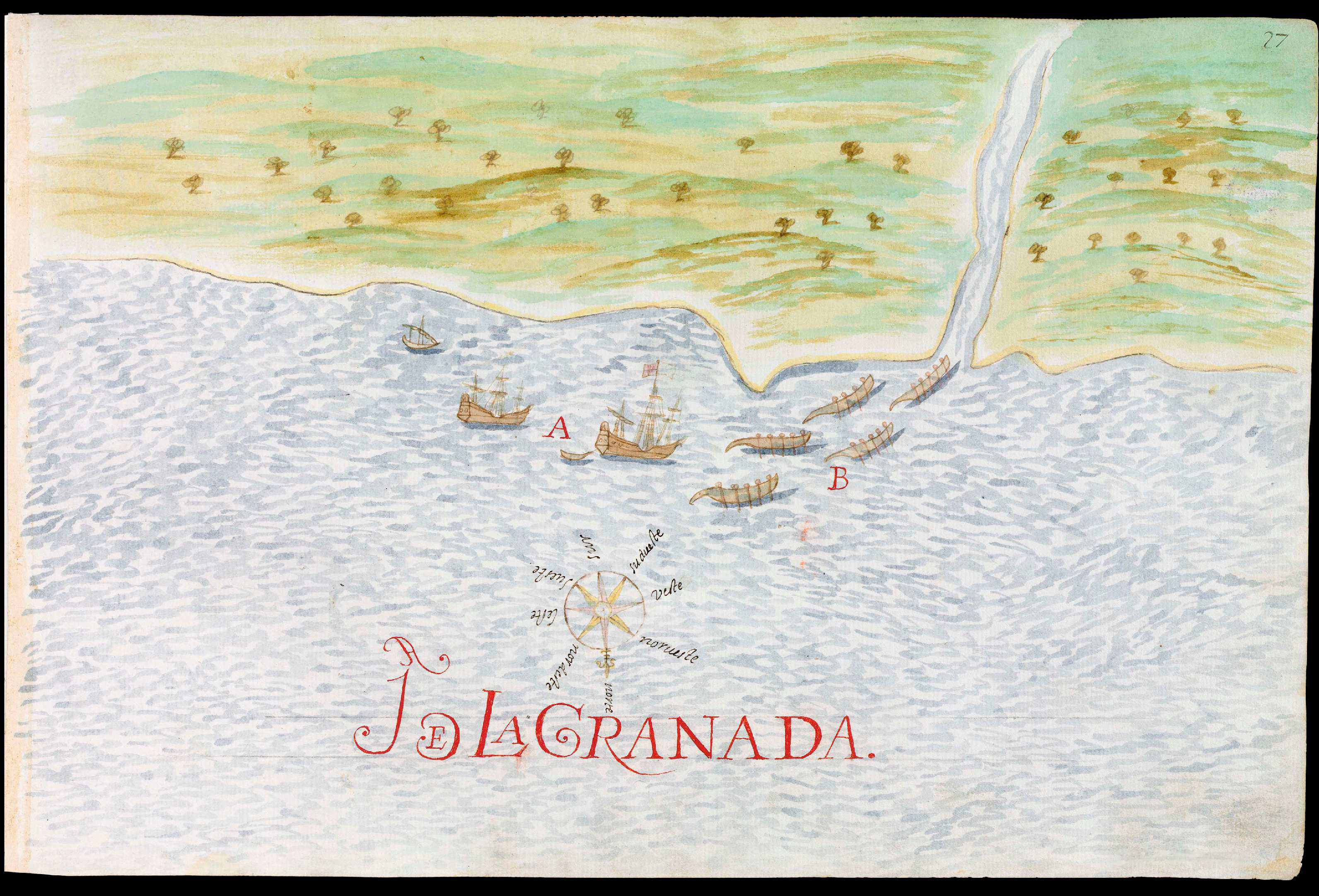 Spanish 17th-century map that shows a fragment of the coast of the island of Granada. Letter B indicates "boats of the Indians". Page 27 of the Descripciones geográphicas e hydrográphicas de muchas tierras y mares del Norte y Sur en las Indias, en especial del descubrimiento del Reino de la California (Geographic and hydrographic descriptions of many northern and southern lands and seas in the Indies, specifically the discovery of the kingdom of California), written by captain Nicolás de Cardona after his expedition of 1614.